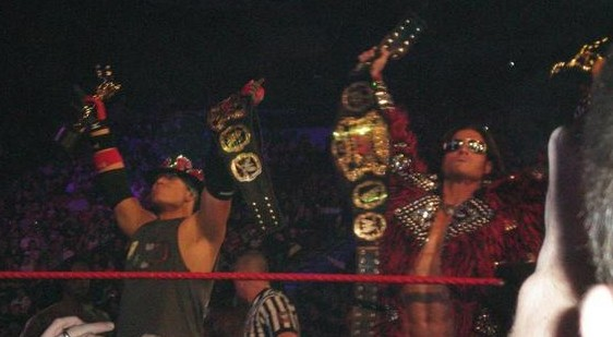 A picture of The Miz & John Morrison I took at a Raw event live in Columbus, Ohio.